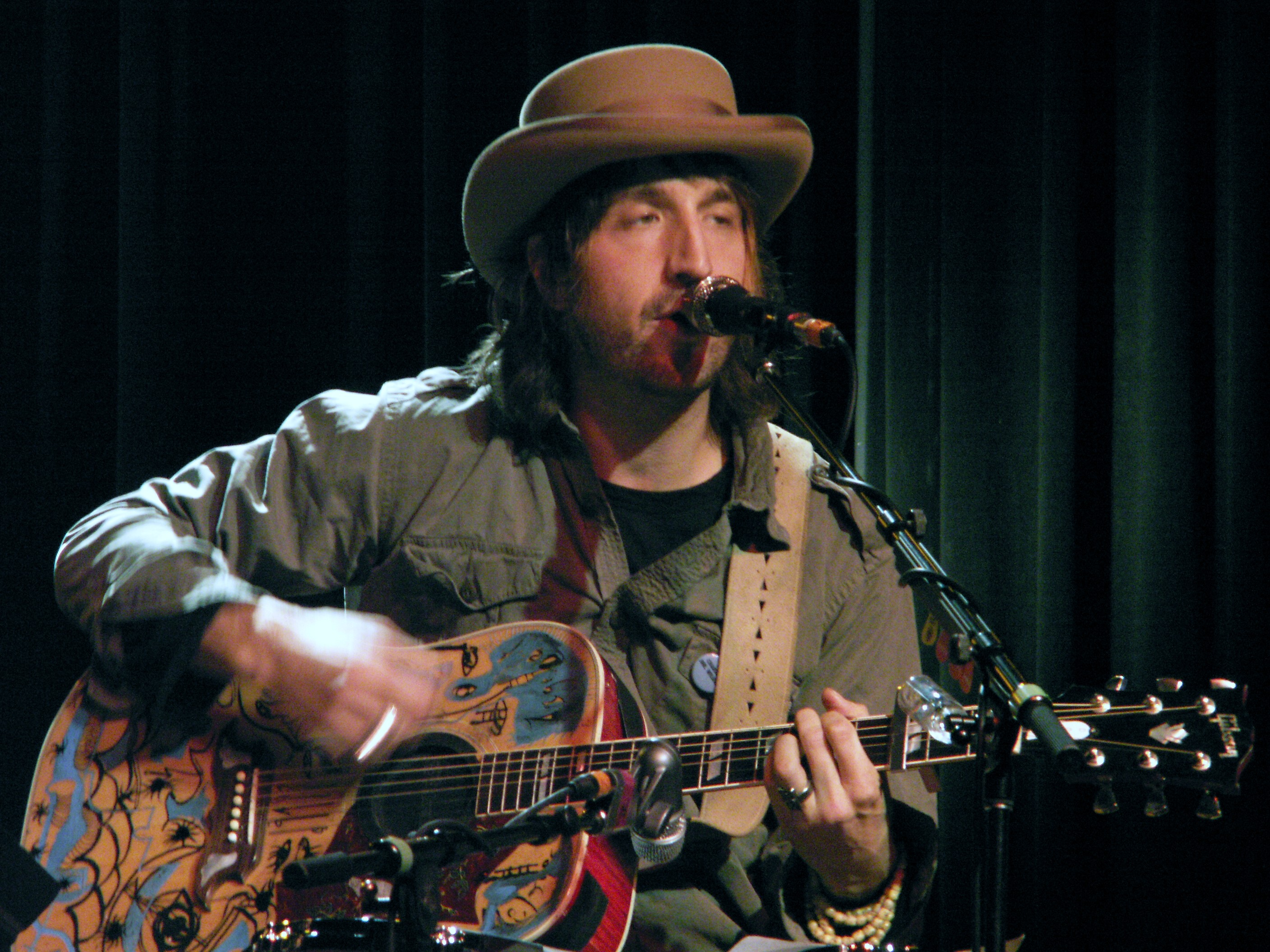 Joseph Arthur performing with Fistful of Mercy on November 9, 2010 in Seattle Washington. ("Fistful of Mercy" is a trio made of Arthur, Ben Harper, and Dhani Harrison